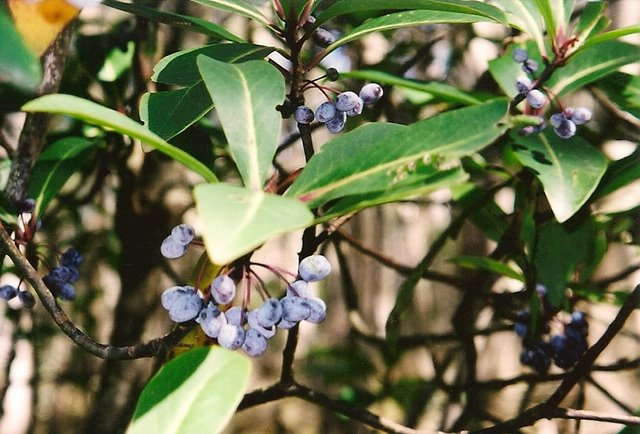 Tasmannia purpurascens at Barrington Tops National Park, photographed near Mount Barrington